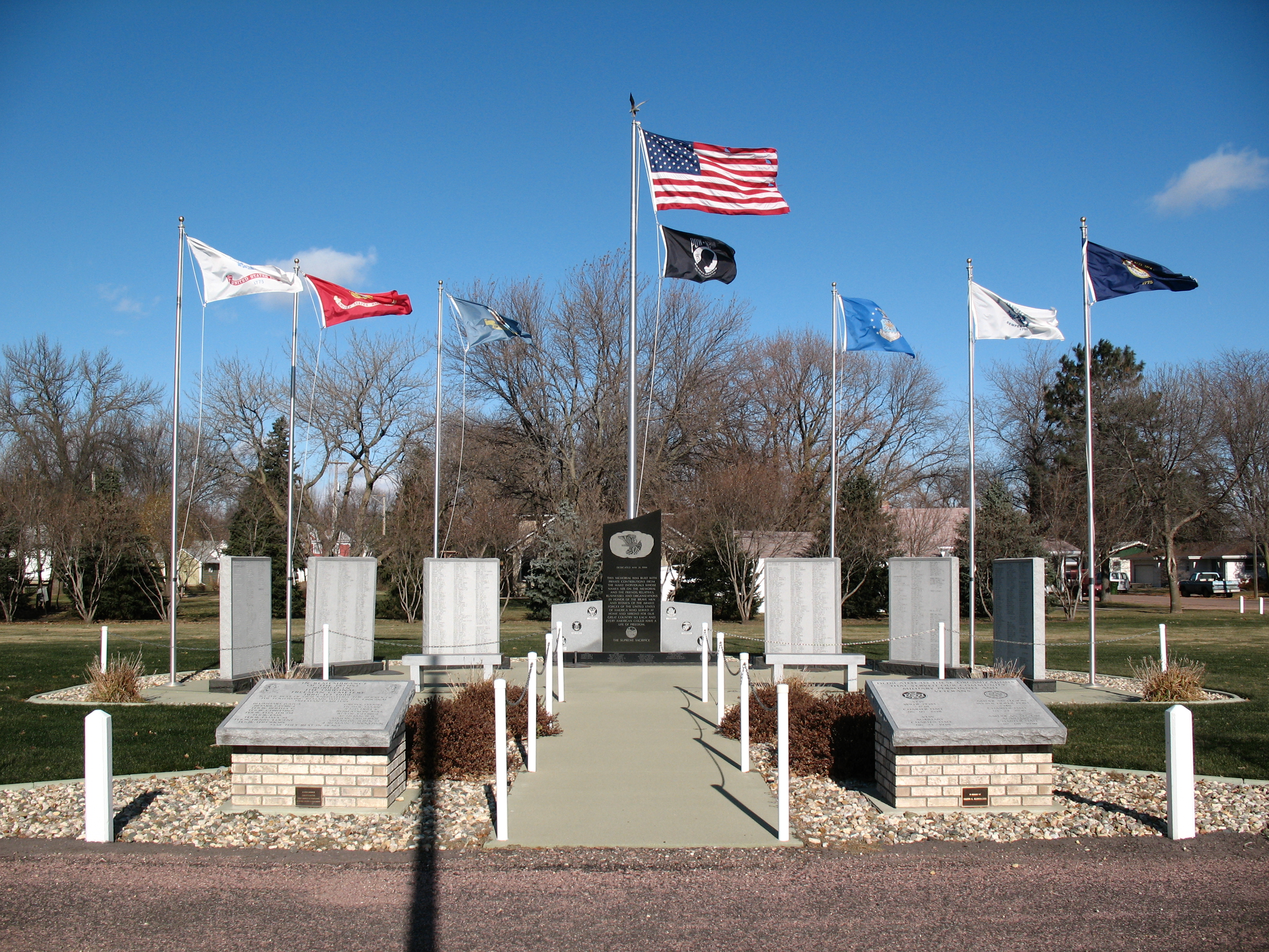 The veterans memorial in Freeman, South Dakota.